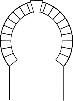 Tummid arch